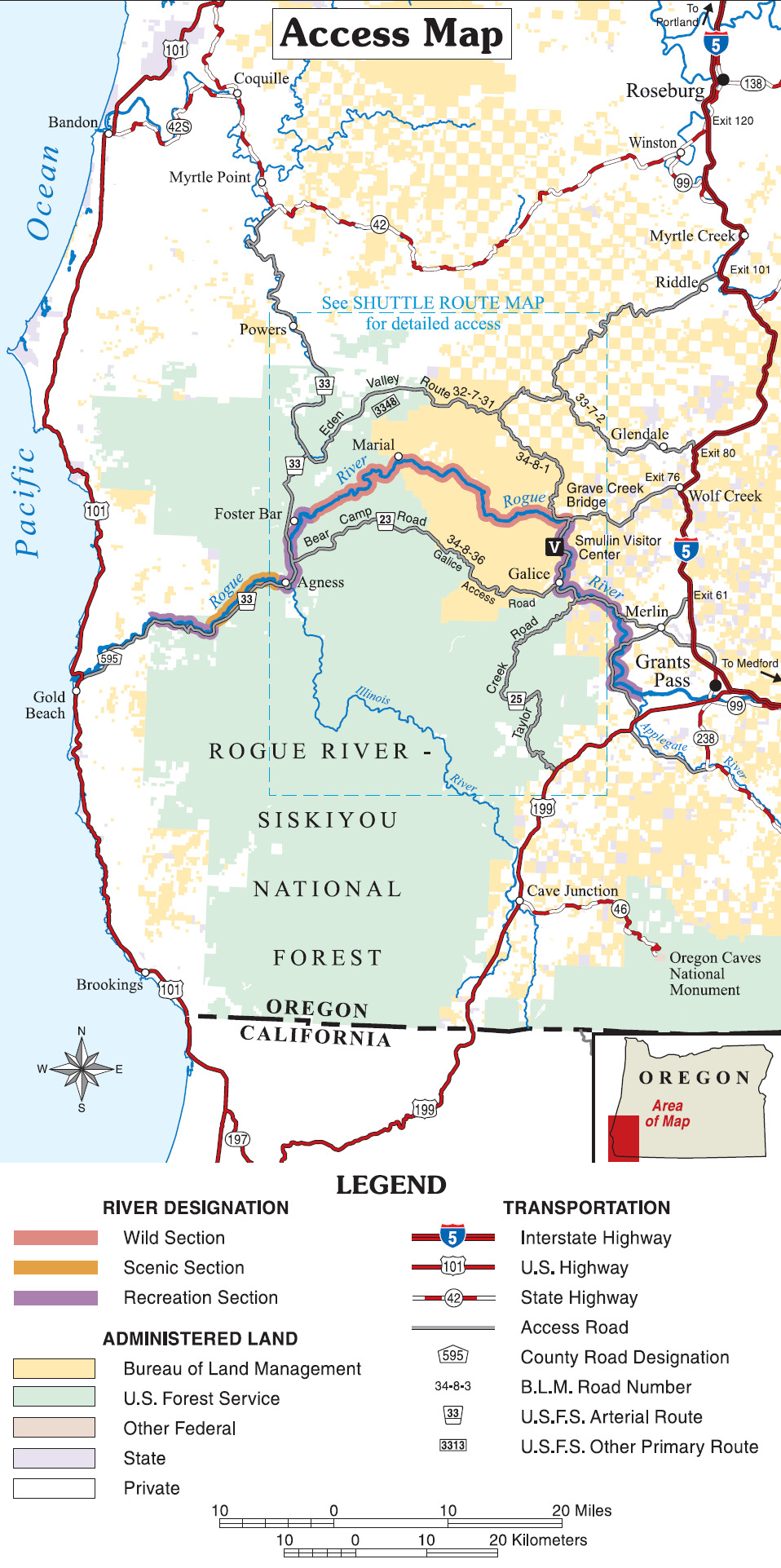 Map of the western course of the Rogue River, with access locations — in southwestern Oregon. Map area primarily located within the Rogue River-Siskiyou National Forest.